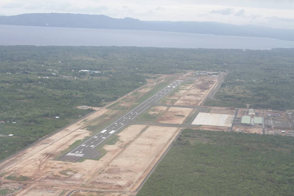 Aerial view of Panglao Island International Airport in Panglao, Bohol in the Philippines. Tagalog: Tanawin ng Paliparang Pandaigdig ng Pulo ng Panglao sa Panglao, Bohol sa Pilipinas mula sa himpapawid.